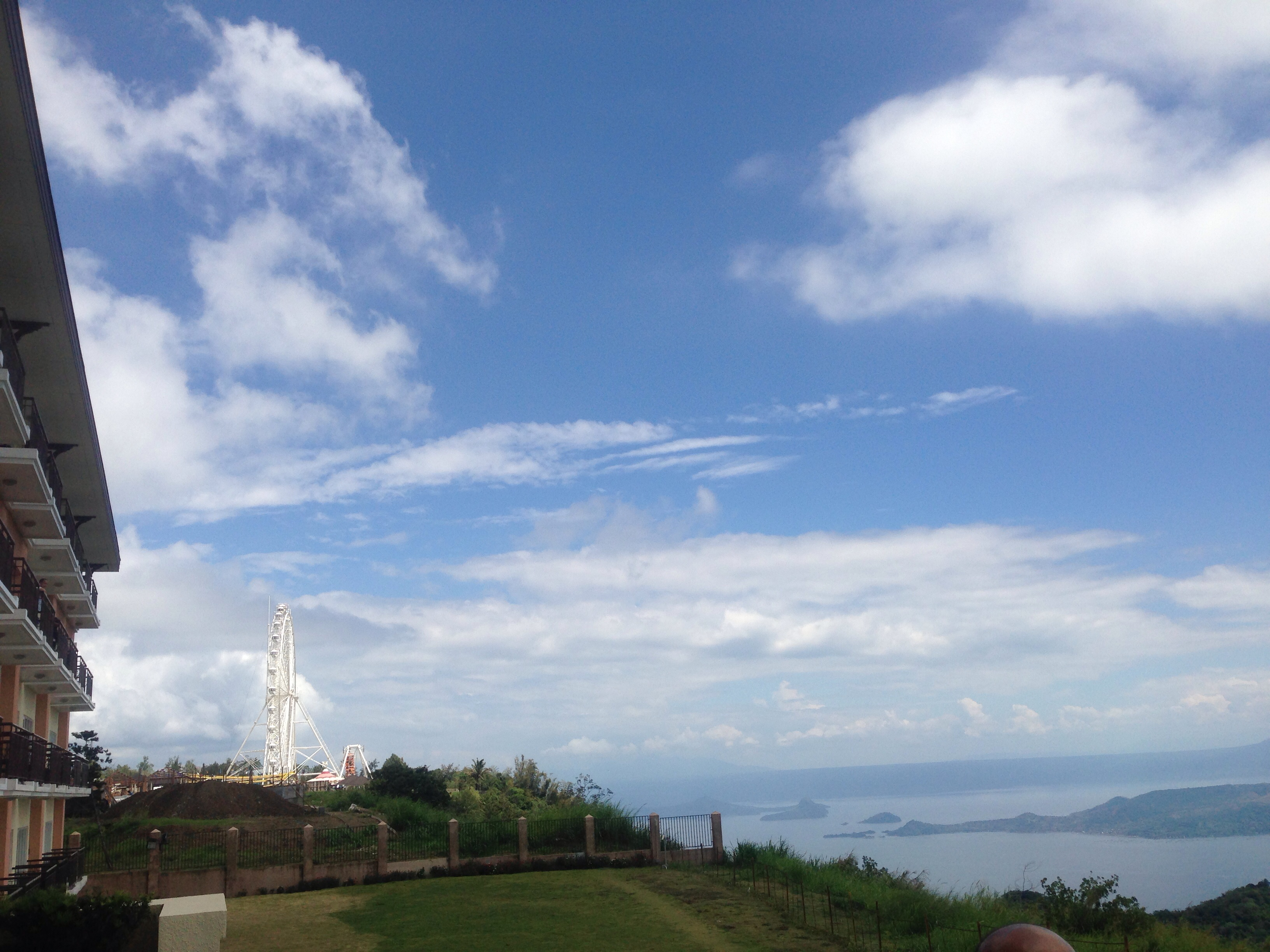 The Sky Eye at Sky Ranch and Taal Lake view from Taal Vista Hotel, Tagaytay, Cavite, Philippines